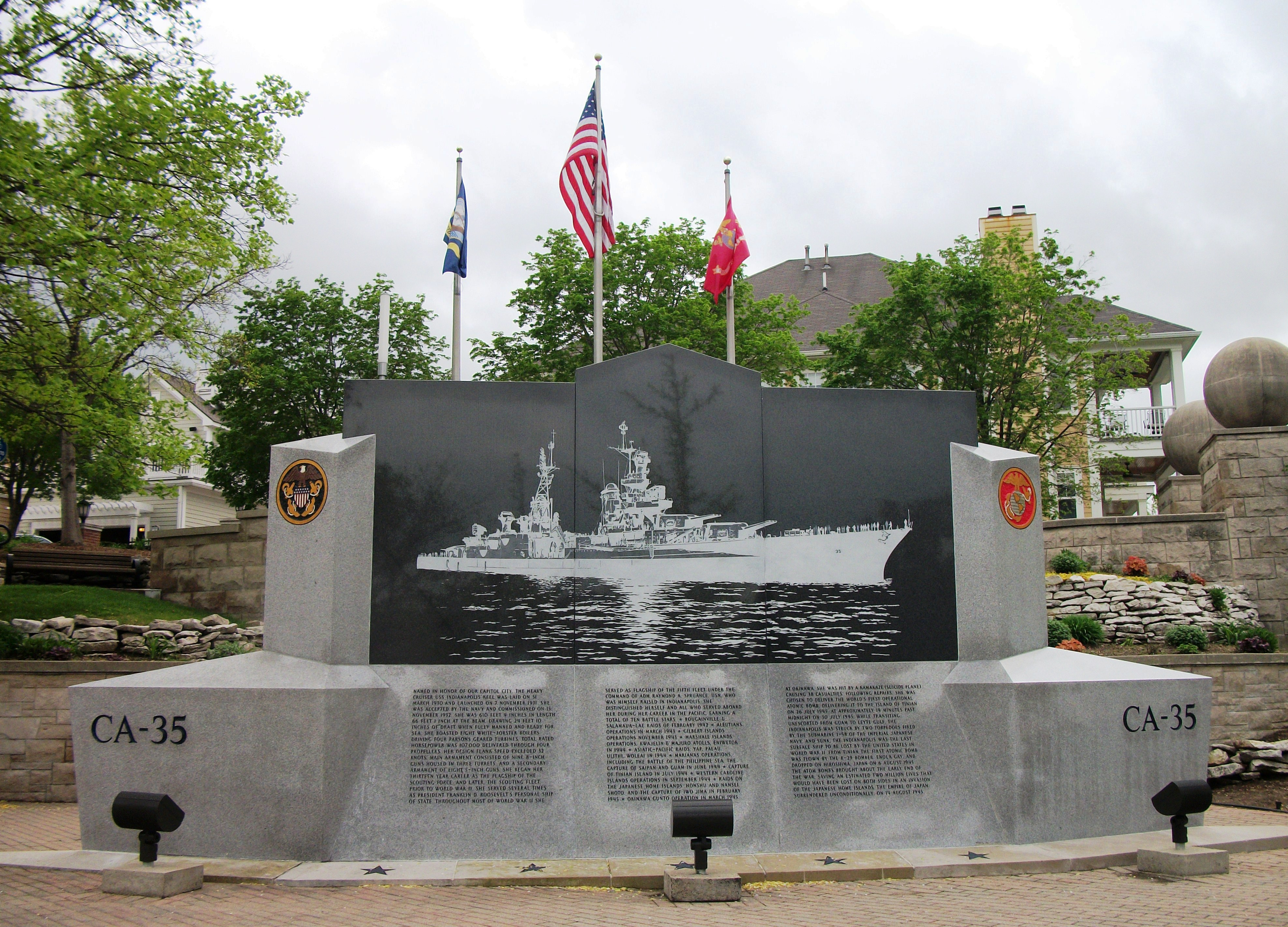 USS Indianapolis (CA-35) memorial, Indianapolis, Indiana.